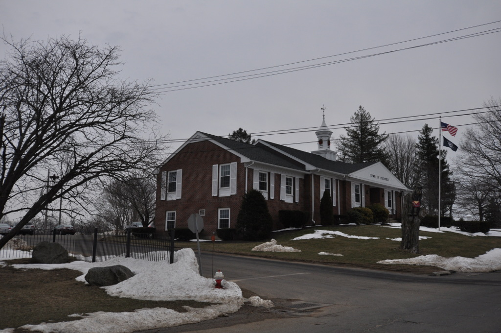 Prospect Green Historic District, Prospect, Connecticut. Town hall.